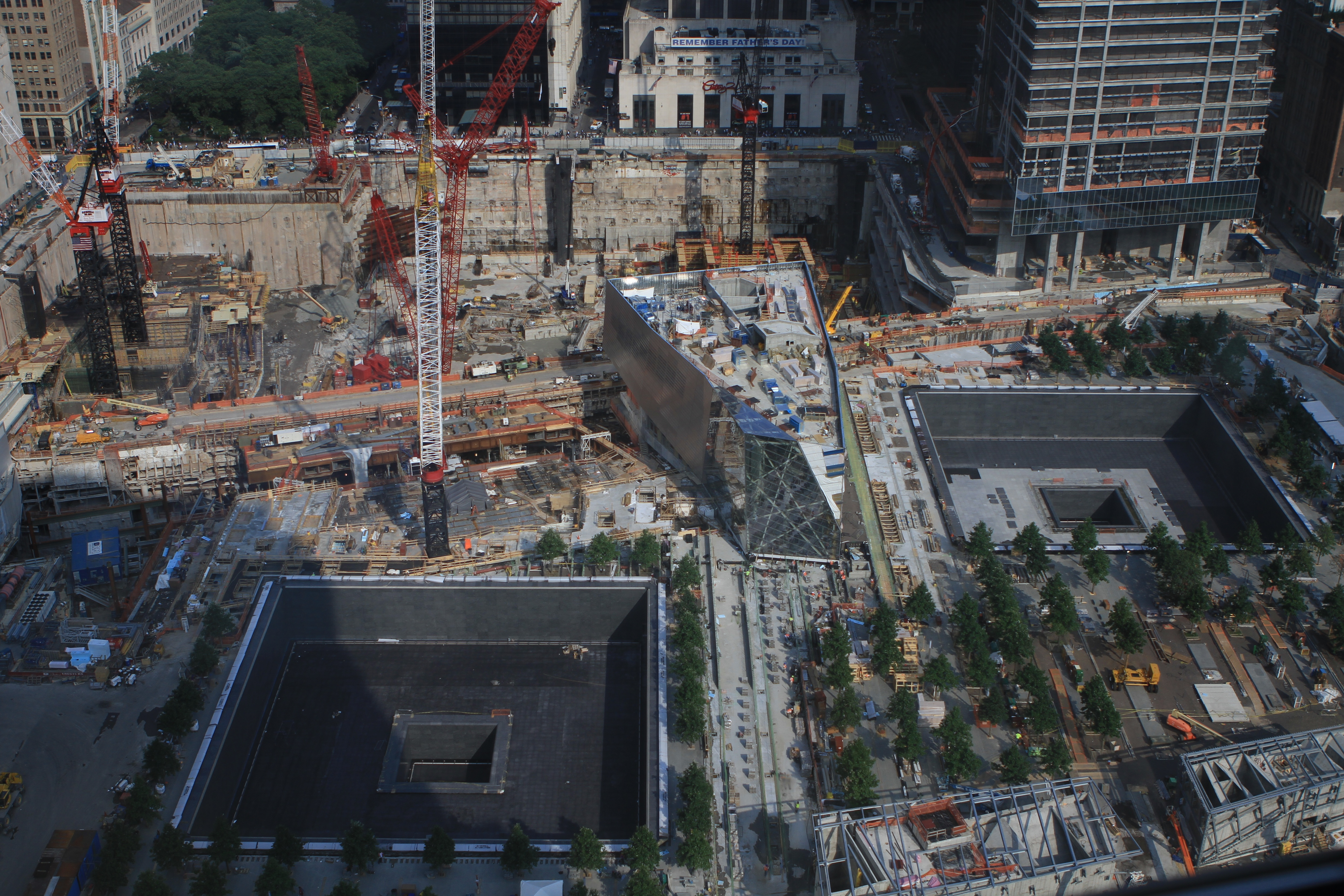 The Ground Zero construction site, seen from across the West Side Highway and thirty floors up. The two pools, lined with waterfalls, mark the footprints of the original 1 WTC and 2 WTC; the new 1 WTC is out of shot to the left.